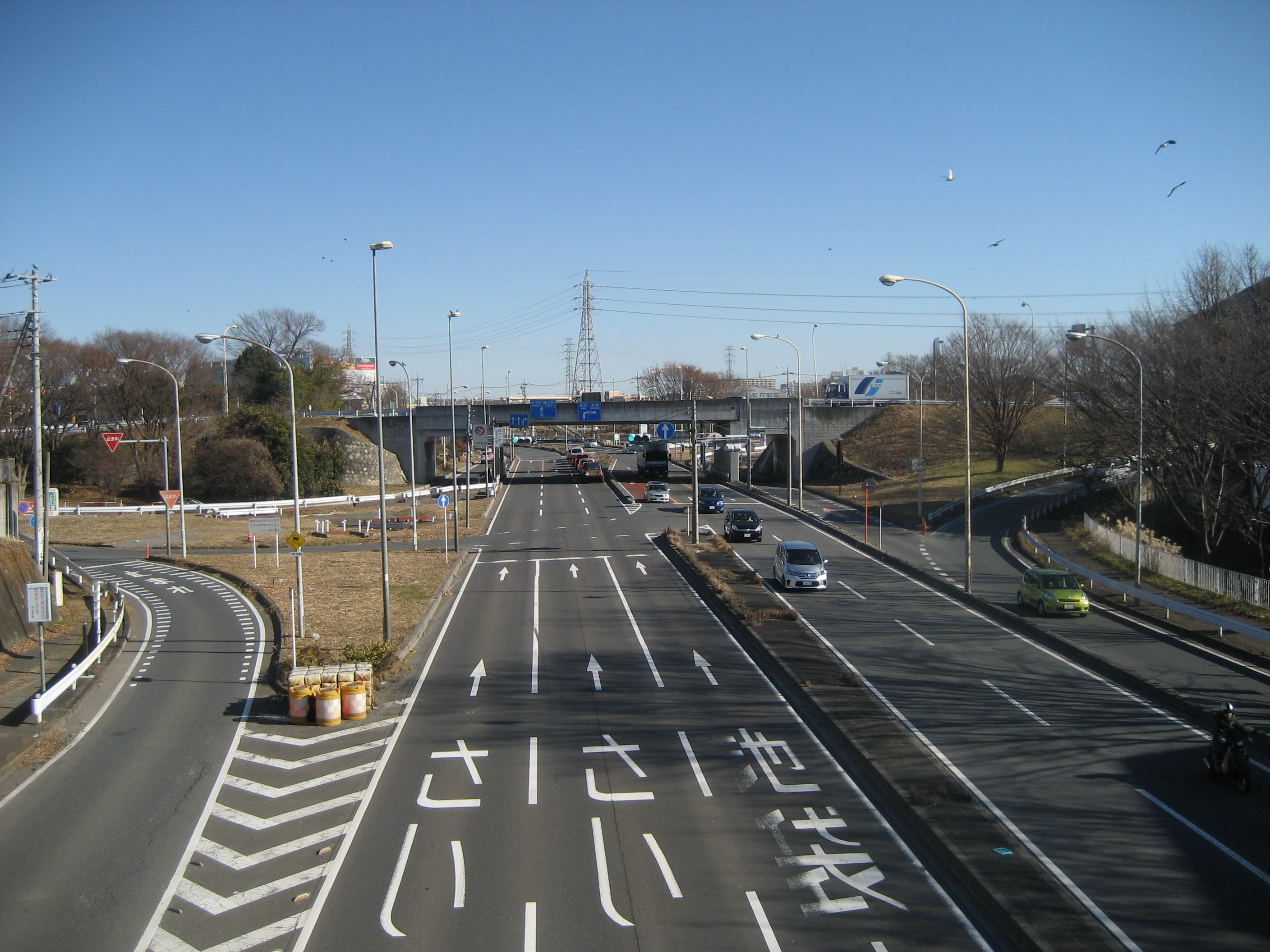 Hanabusa Inter Intersection on the Japanese National Route 463